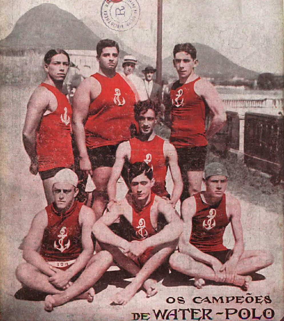 The water polo team of Clube de Natação e Regatas Santa Luzia, from Rio de Janeiro, wonners of the 1917 championship of the town.